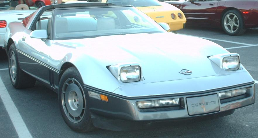 1984-1996 Chevrolet Corvette photographed in Montreal, Quebec, Canada at Gibeau Orange Julep.